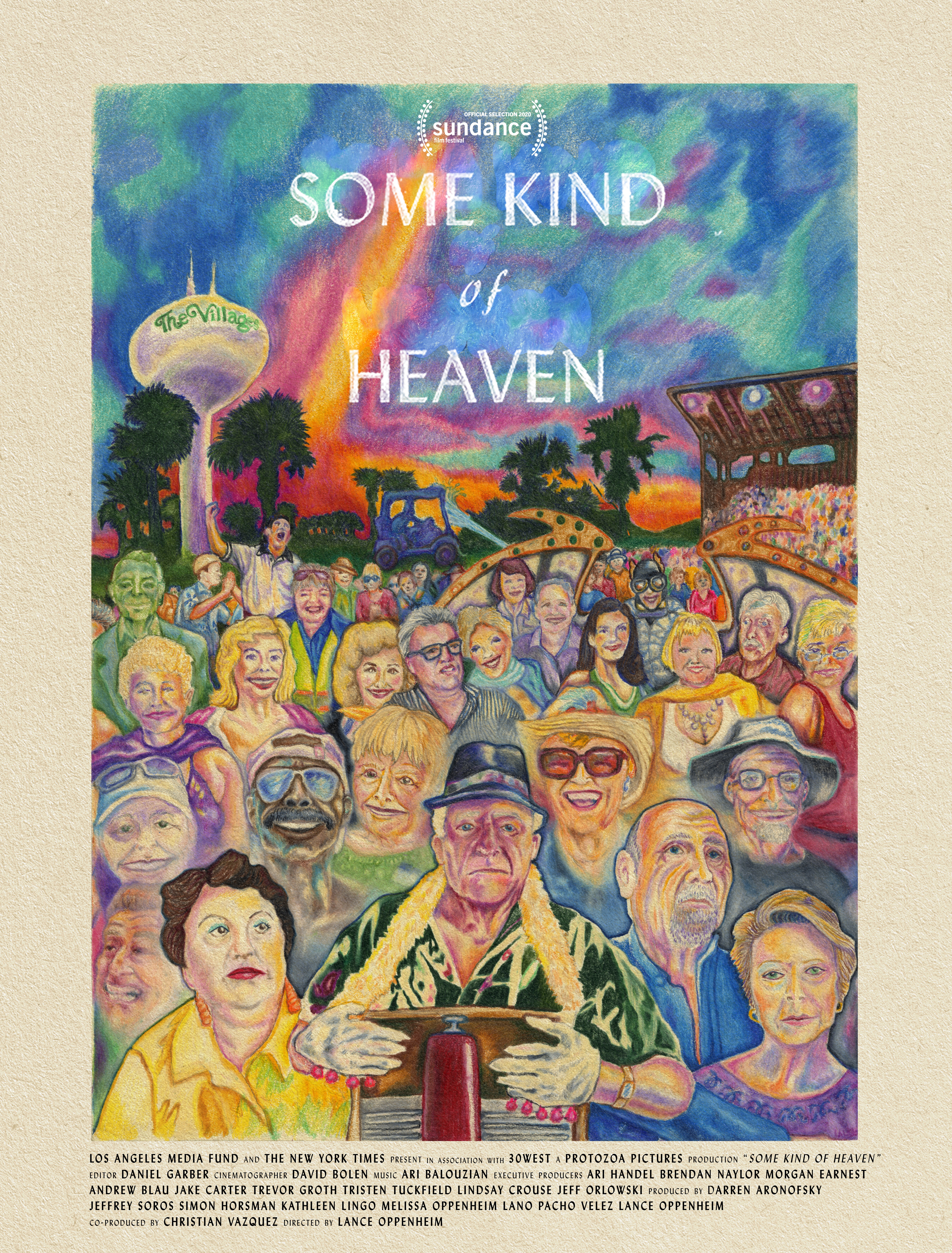 Promotional release poster